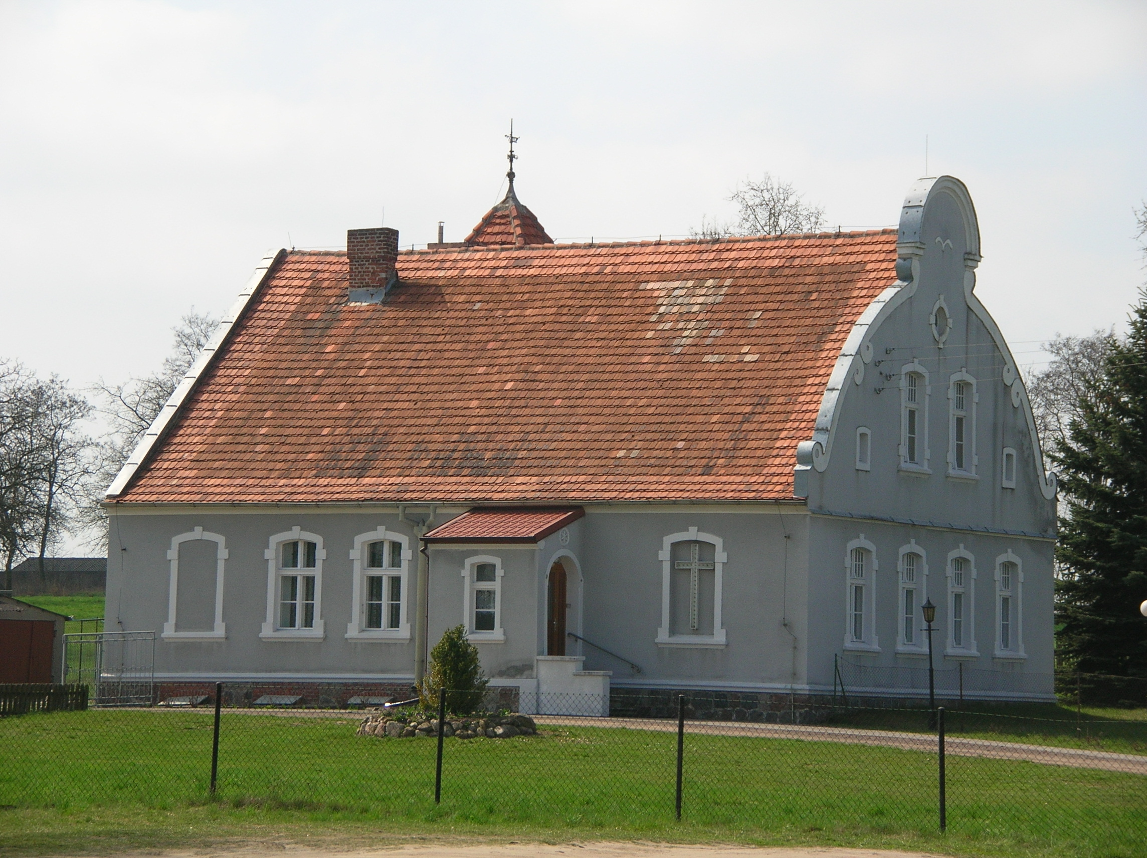 Old house in Palędzie Kościelne